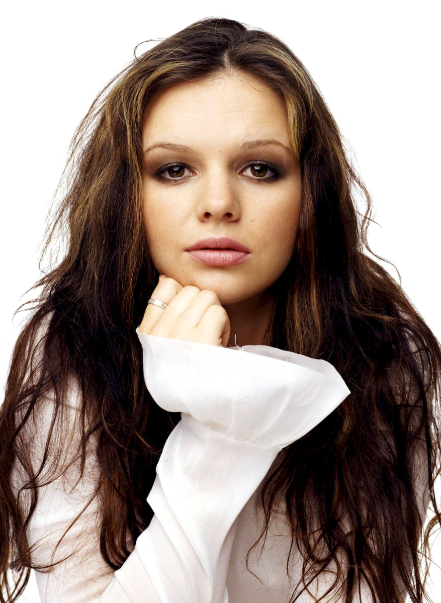 Amber Tamblyn photographed for TV GUIDE by Jerry Avenaim